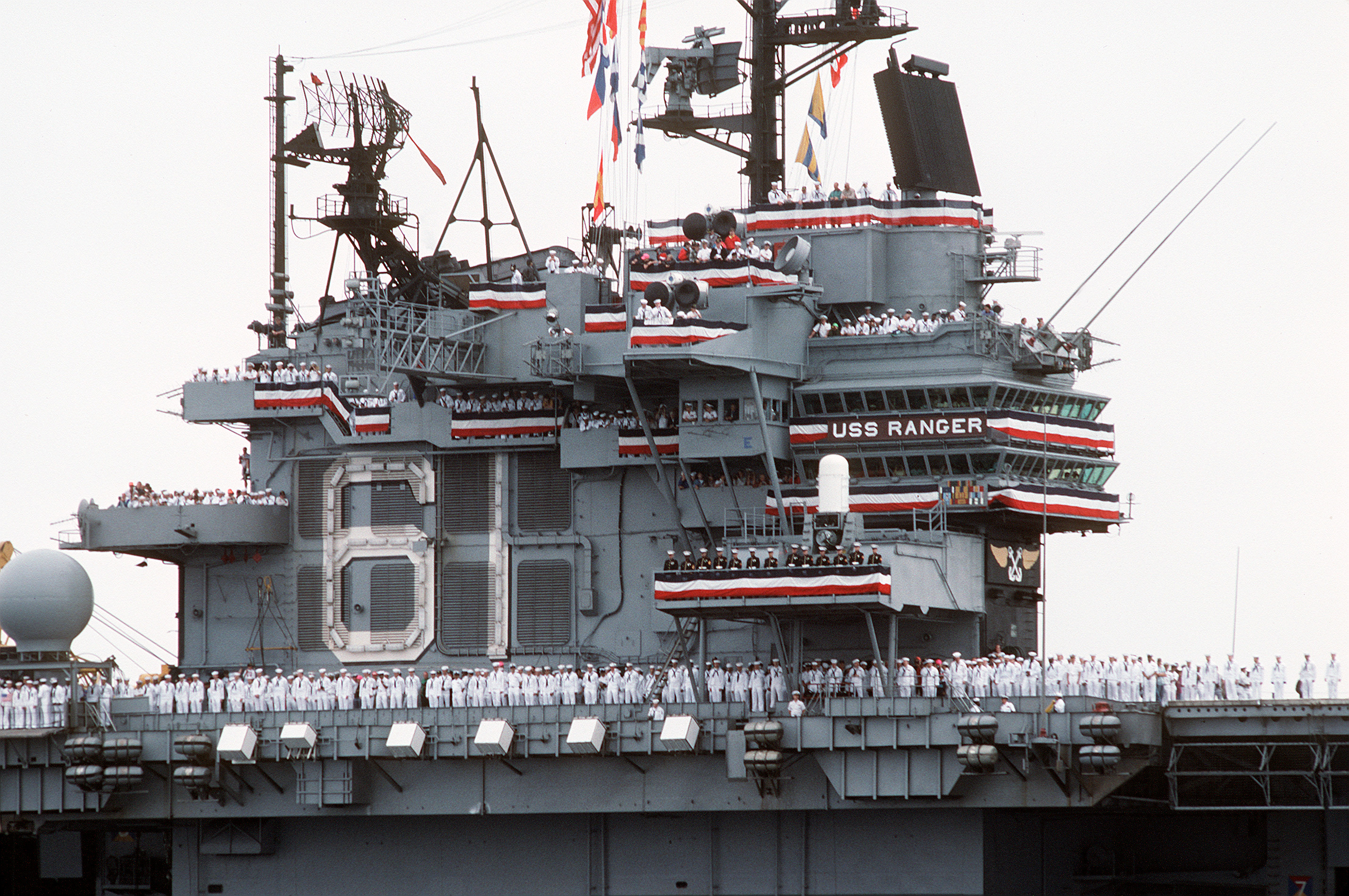 Crew members man the rails aboard the aircraft carrier USS RANGER (CV-61) as the ship arrives at the pier. The RANGER is returning to North Island following its deployment to the Persian Gulf region for Operation Desert Shield and Operation Desert Storm. Location: NAVAL AIR STATION, NORTH ISLAND, CALIFORNIA (CA) UNITED STATES OF AMERICA (USA)